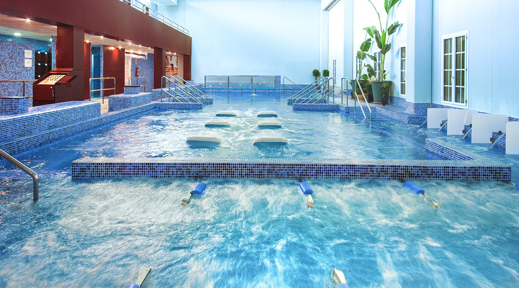 Thermal Pool Balneario Cofrentes